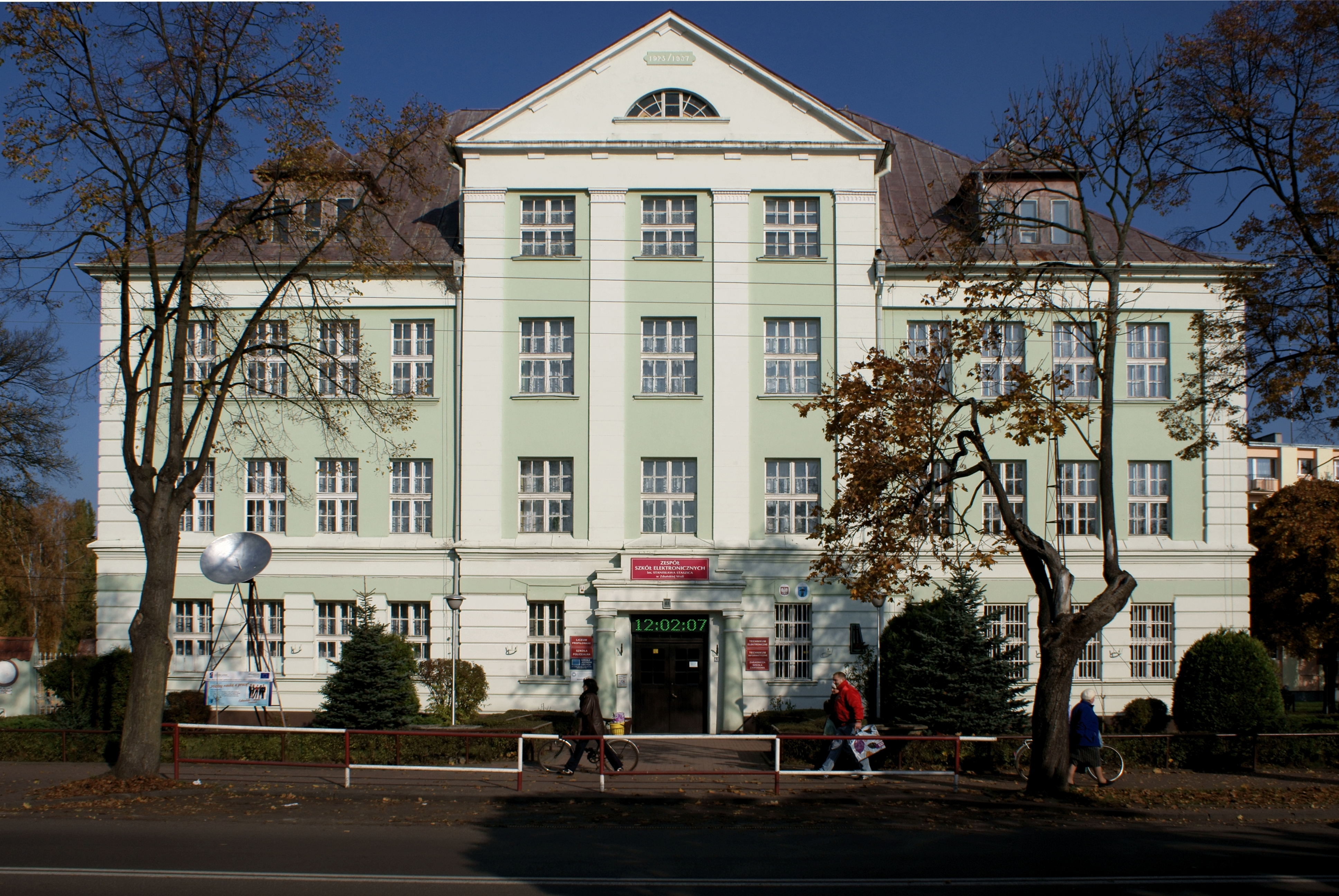 Stanisław Staszic Technical High School of Electronics in Zduńska Wola